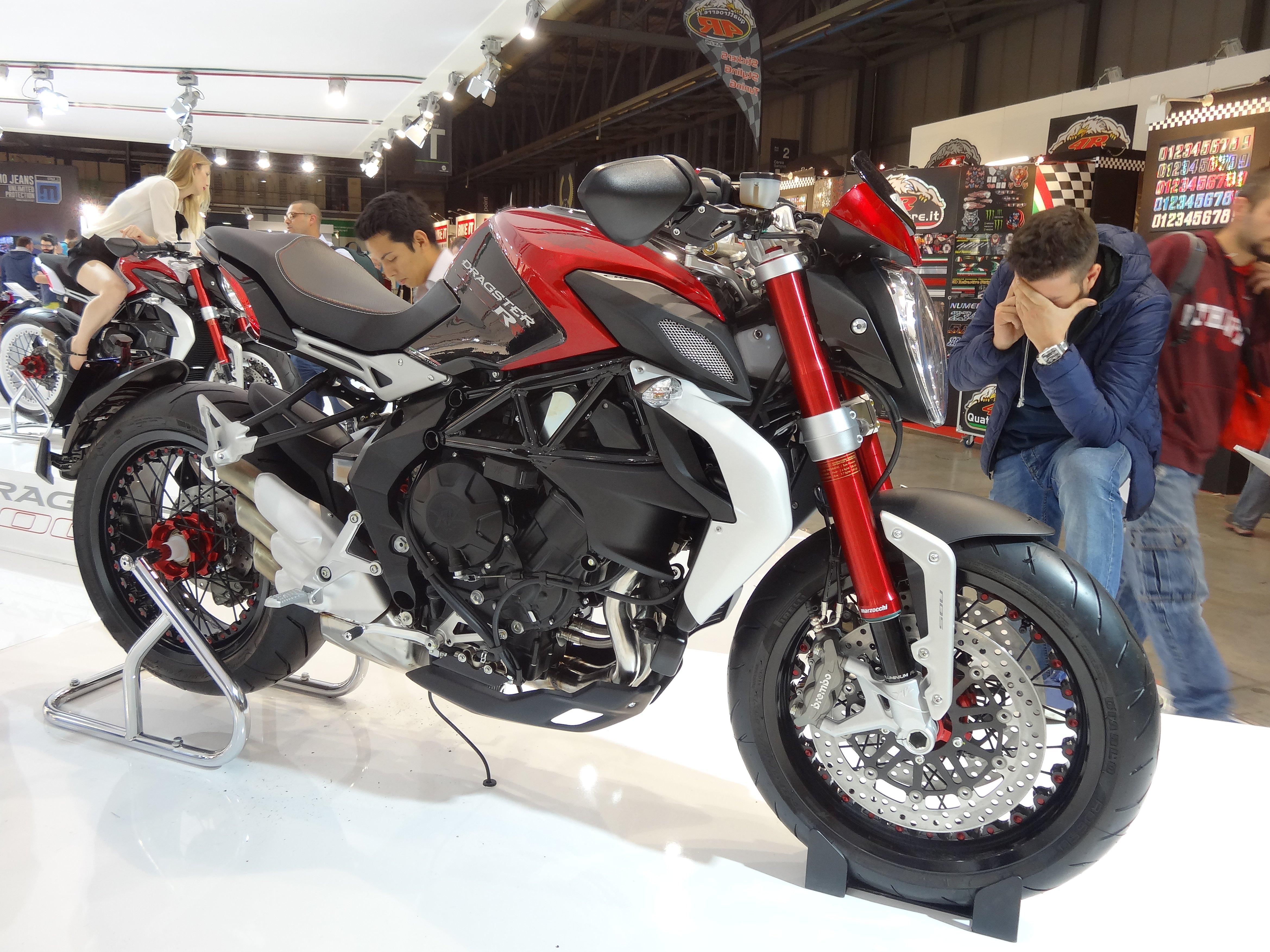 MV Agusta Brutale 800 Dragster RR, EICMA 2014